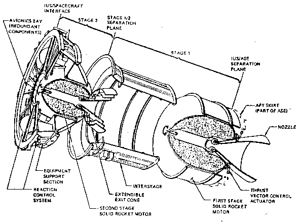 Sketch of the IUS stage